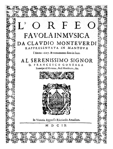 Title page of L’Orfeo (opera of Claudio Monteverdi), 1609 Venice edition by Ricciardo Amadino